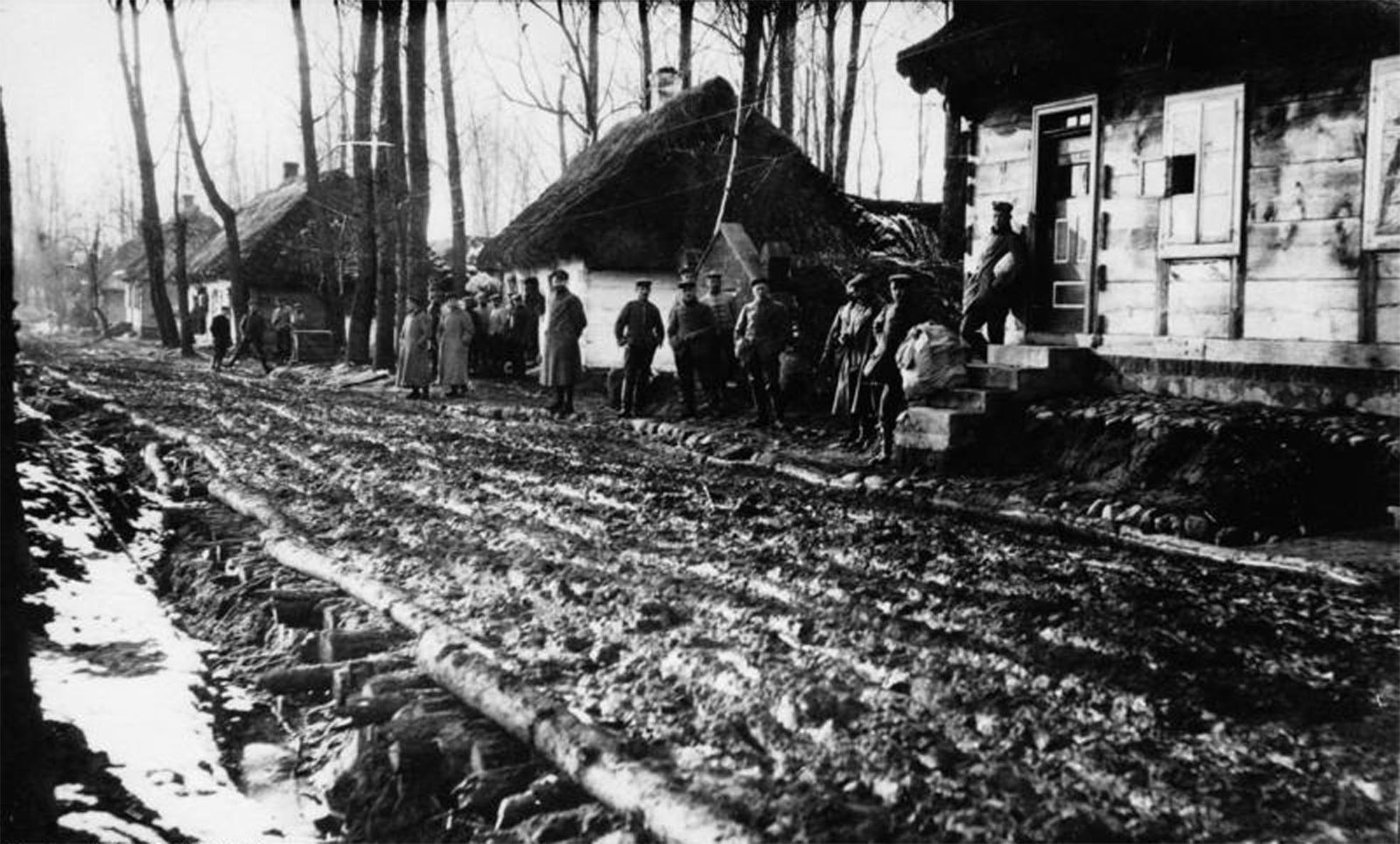 The German soldiers in the Polesia village and corduroy road (Ukraine)